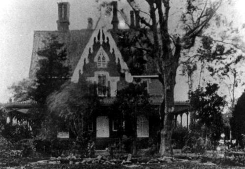 Louisiana Historical Survey